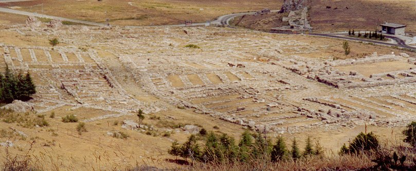 The Great Temple (temple 1) and its storerooms at Hattusa, Turkey. It was probably build around the middle of the 13th century BC.